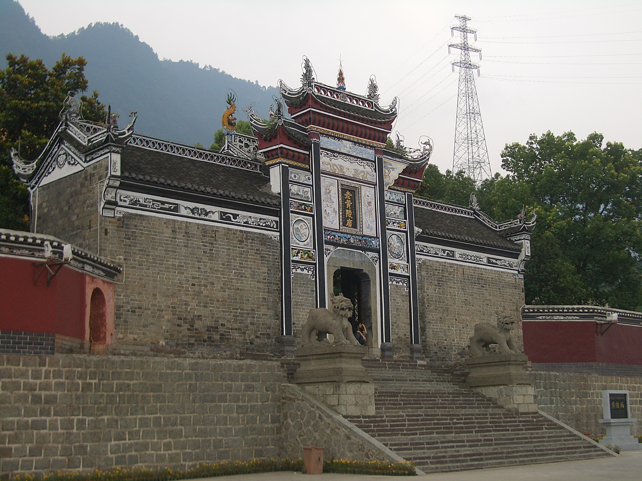 Huangling Miao, a temple on Sandouping waterfront. This is on the far eastern, "touristy" end of the town, maybe 10 km downstream from the dam